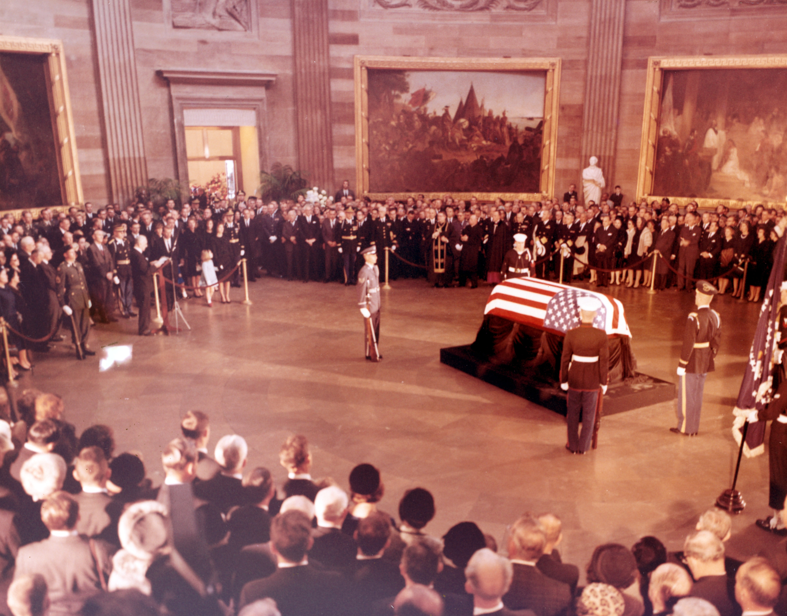 President Kennedy casket rests atop the Lincoln catafalque in Capitol Rotunda. Photo by Architect of the Capitol photographers.